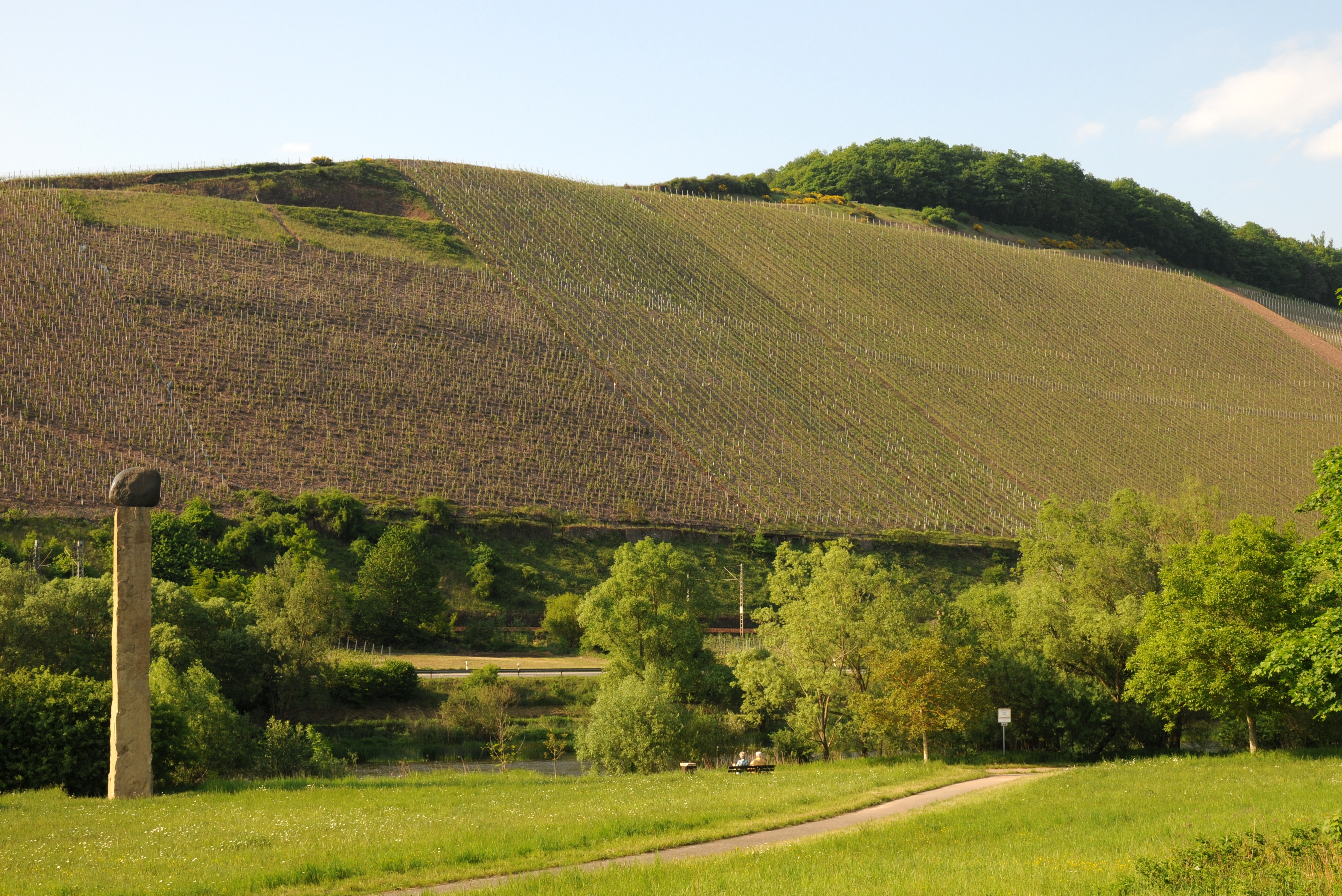 "Kanzemer Altenberg", Kanzem, in the foreground left "Tulpe aus Amsterdam", Ton Kalle, (2007)